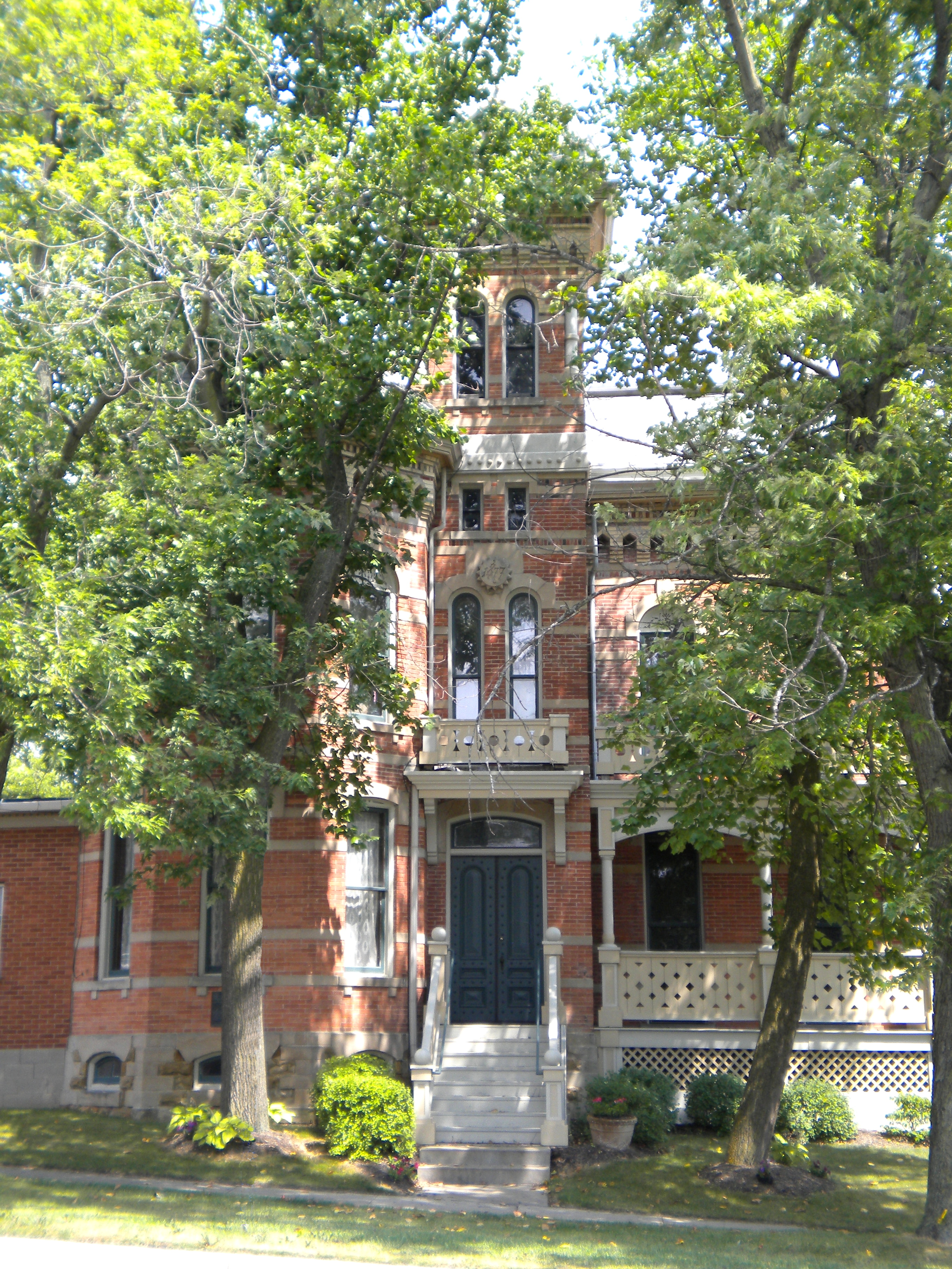 A full view of the front of the Steuben County Jail, Indiana, USA, on the National Register of Historic Places